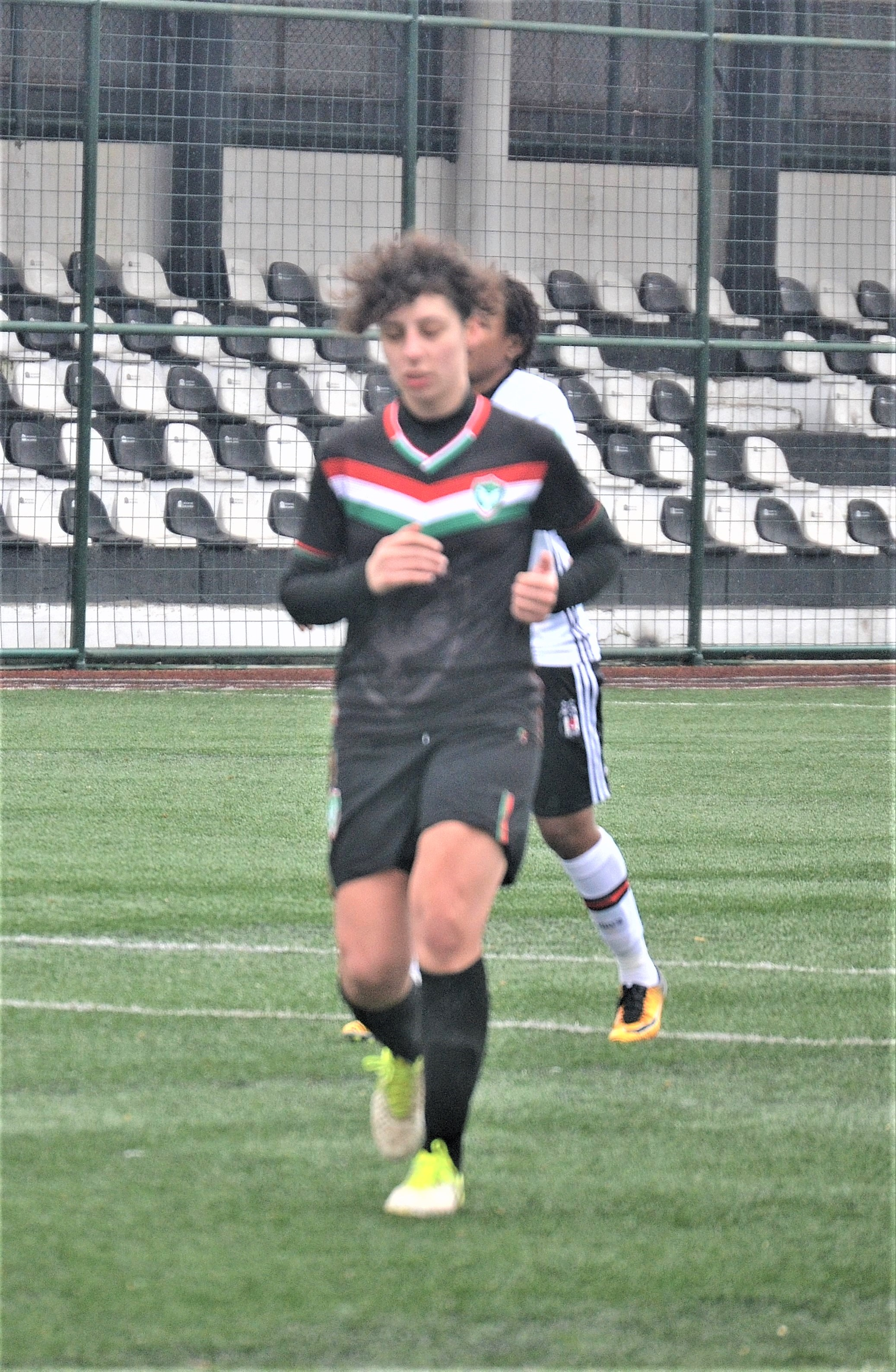 Selin Hasbal playing for Amed S.K. in the 2017-18 Turkish Women's First League in the away match against Beşiktaş J.K.